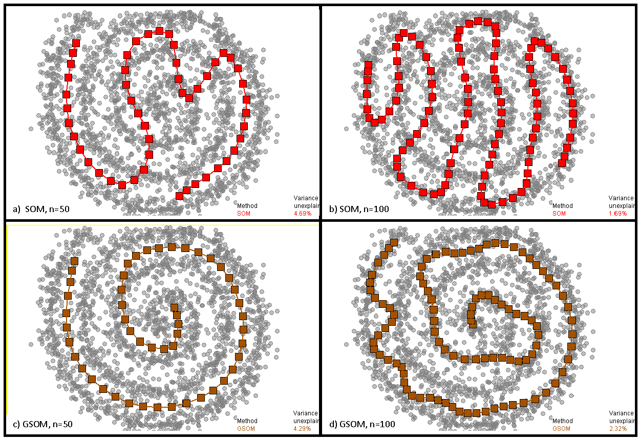 Approximation of a spiral with noise by SOM (the upper row) and GSOM (the lower row) with 50 (the first column) and 100 (the second column) nodes. The Fraction of variance unexplained is: a) 4.68% (SOM, 50 nodes); b) 1.69% (SOM, 100 nodes); c) 4.20% (GSOM, 50 nodes); d) 2.32% (GSOM, 100 nodes. The initial approximation for SOM was equidistribution of nodes in a segment on the first principal component with the same variance as for the data set. The initial approximation for GSOM was the mean point. Illustration is prepared using free software: E.M. Mirkes, Principal Component Analysis and Self-Organizing Maps: applet. University of Leicester, 2011. This applet is published under cc Attribution 3.0 unported license.